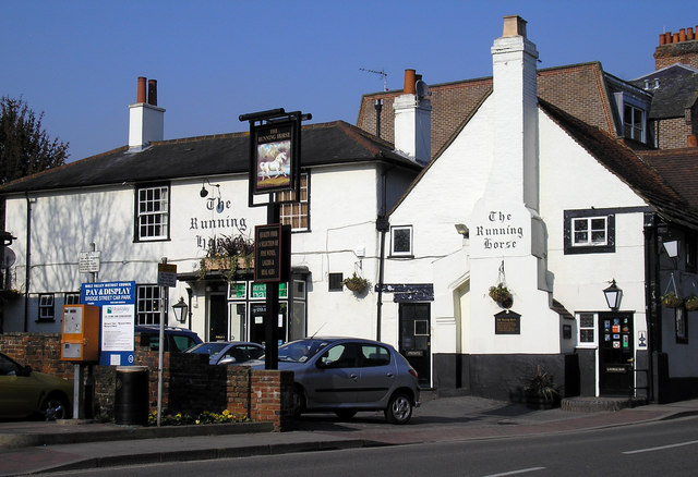 The Running Horse The oldest inn in Leatherhead where John Wesley preached